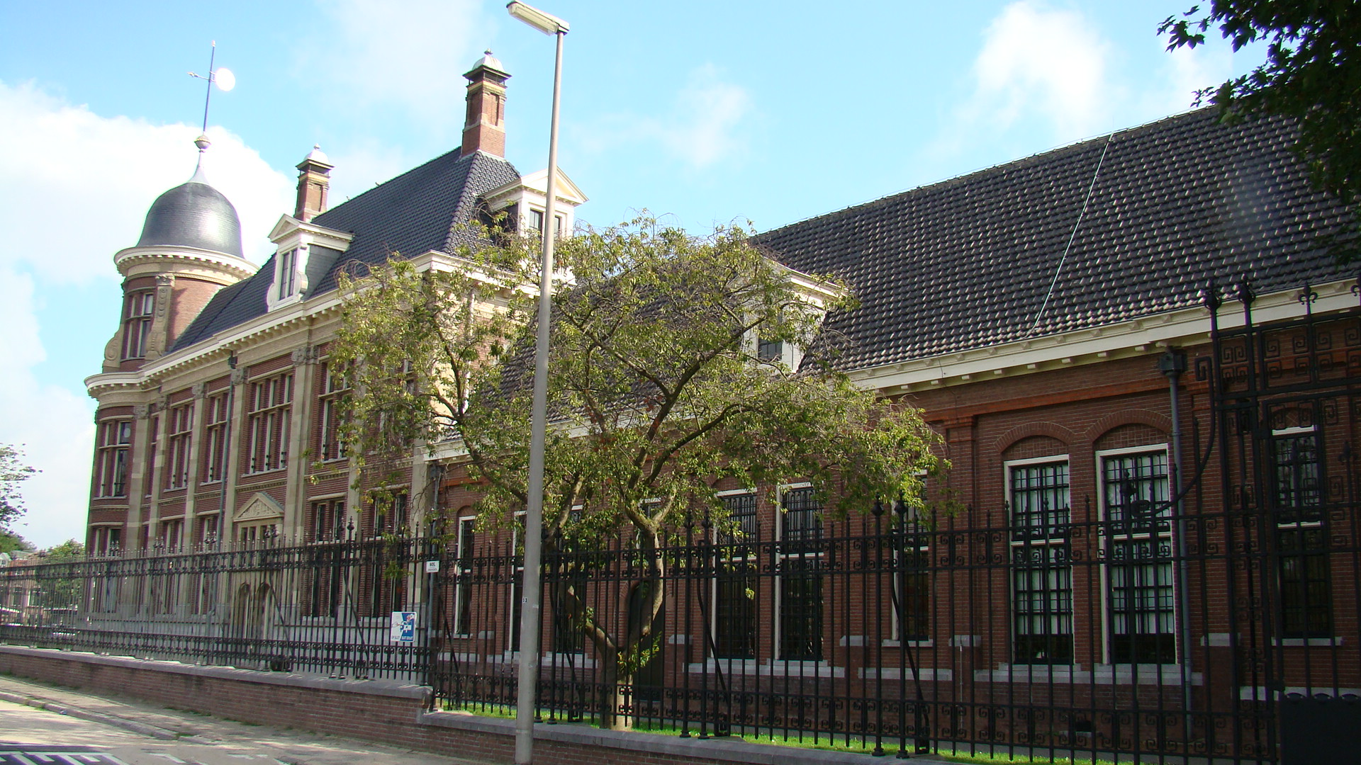 Royal Dutch Mint, Utrecht, Netherlands